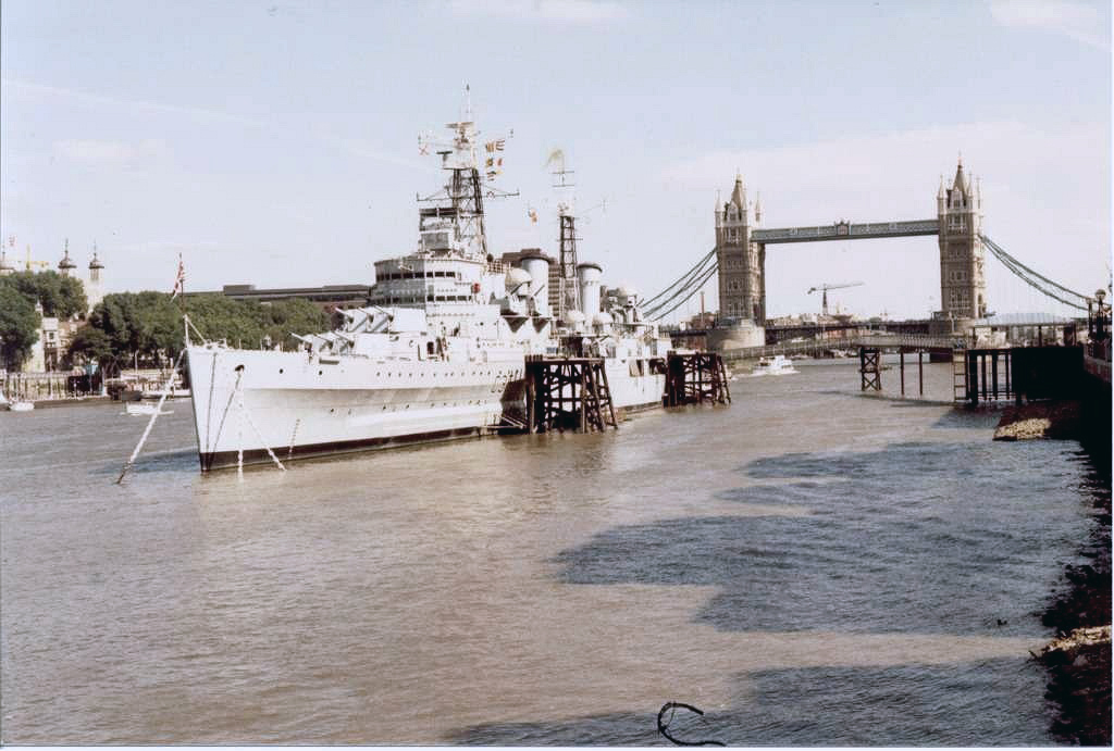 Preserved Royal Navy cruiser HMS Belfast in the old painting scheme in London Basin with Tower Bridge in the background.